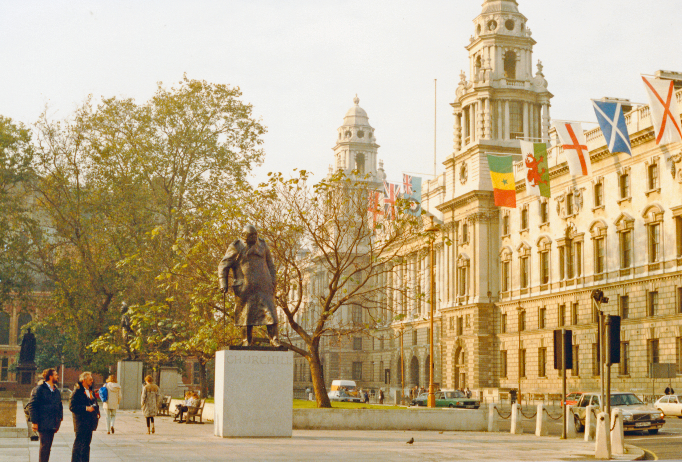 London (Westminster), 1988: Parliament Square, HM Treasury and Churchill statue